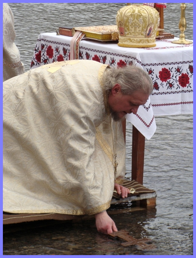 The Great Blessing of Waters on the San River during Epiphany.